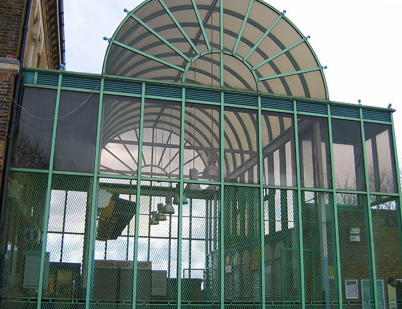 C Palace station taken by C Ford, march 04.